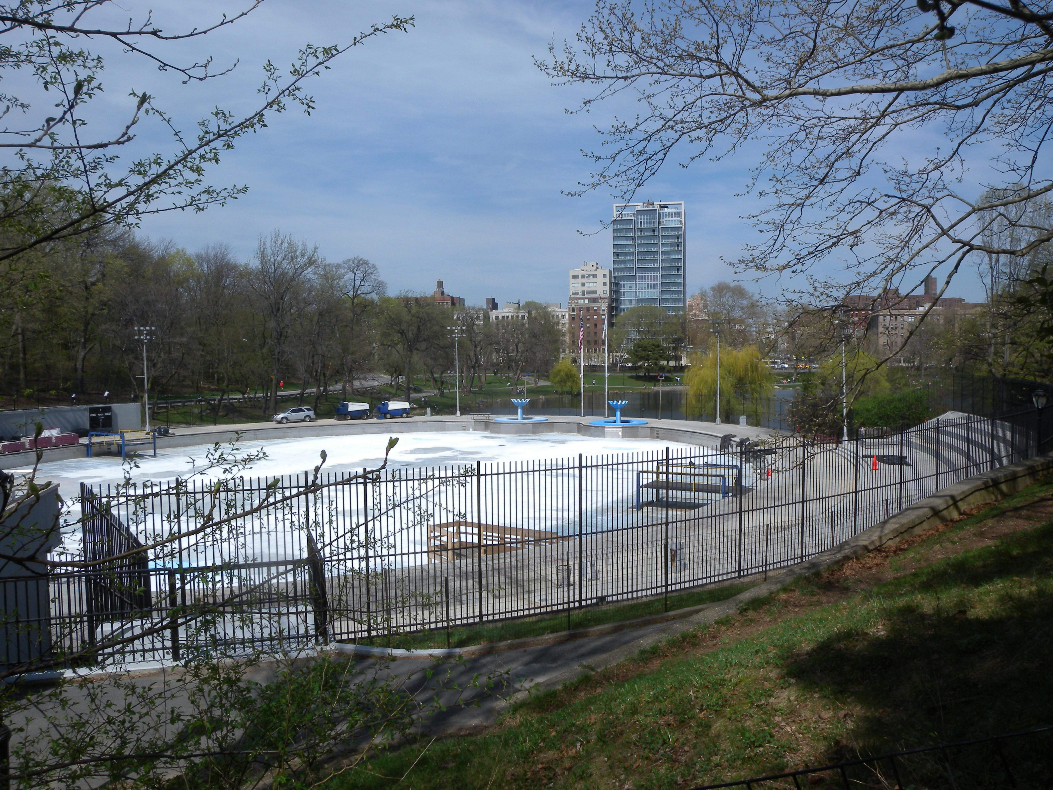 Looking north and down on Lasker Rink during conversion to swimming, on a sunny midday.